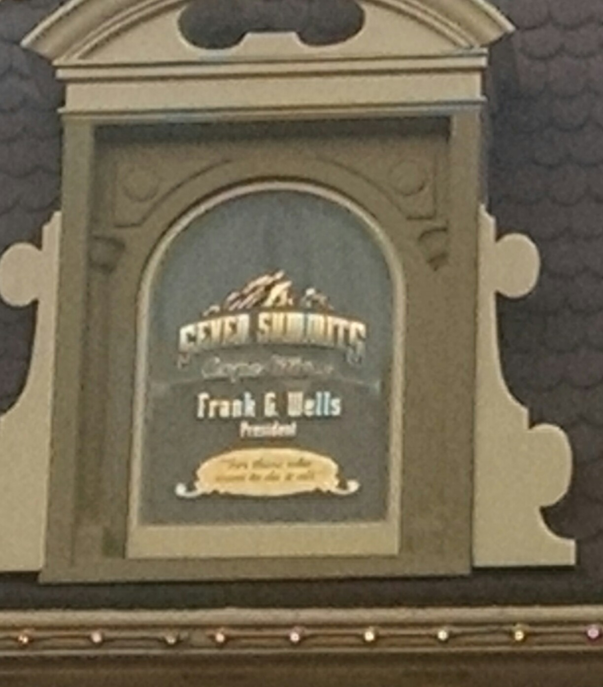 Frank Wells Window on Main Street USA in Walt Disney World